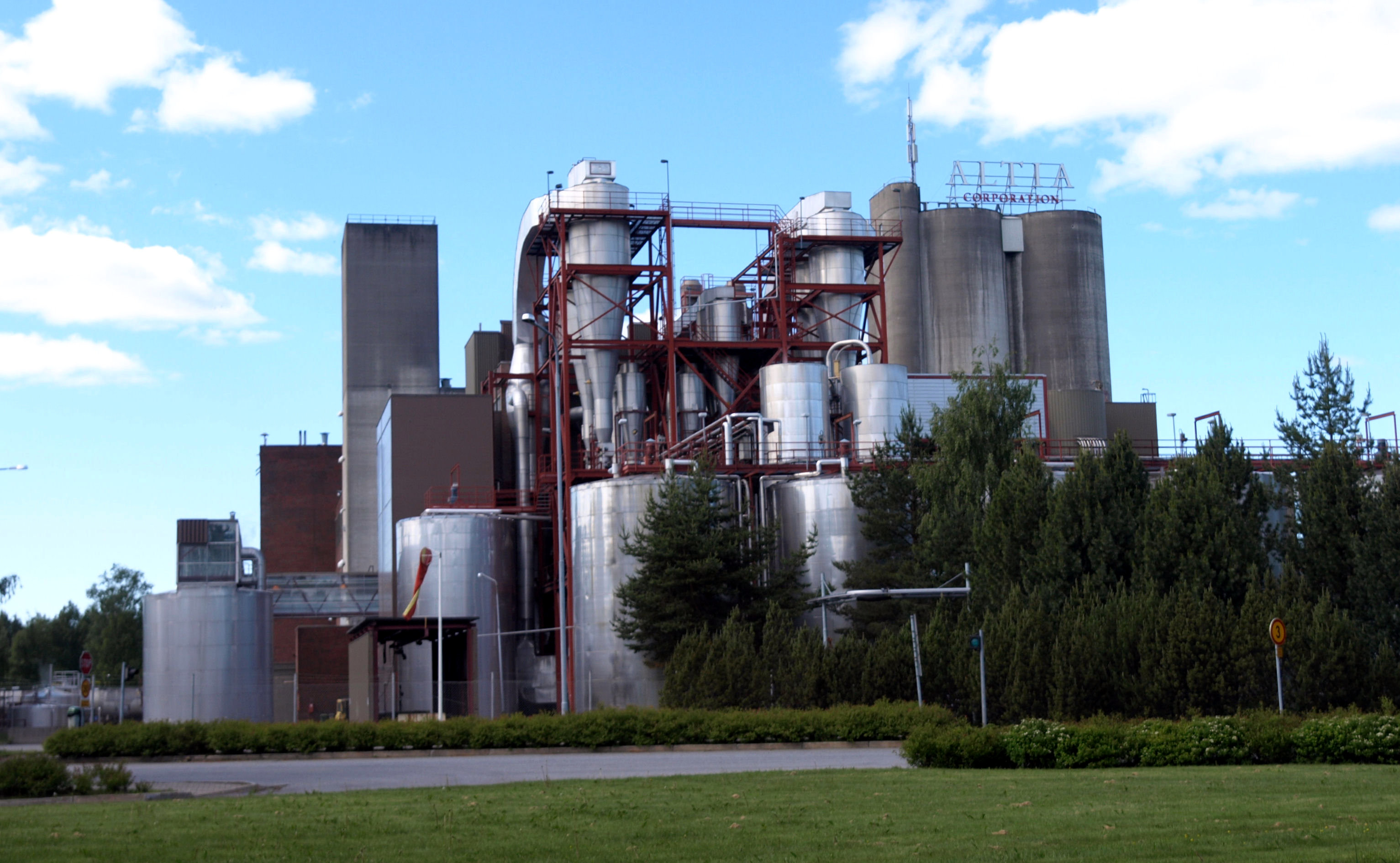 Altia, producer of Koskenkorva Viina in Ilmajoki, Finland